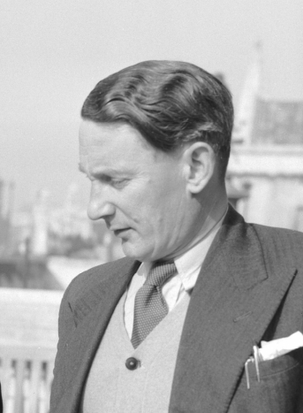 Goronwy Roberts MP (1913–1981)